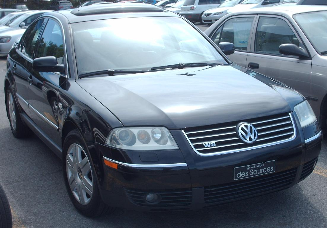 2002-2005 Volkswagen Passat W8 photographed in Montreal, Quebec, Canada.